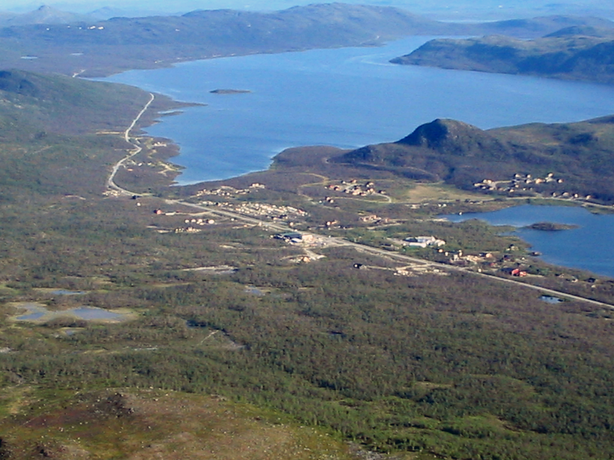 Kilpisjärvi village and Lake Kilpisjärvi viewed from Saana fell in Finland